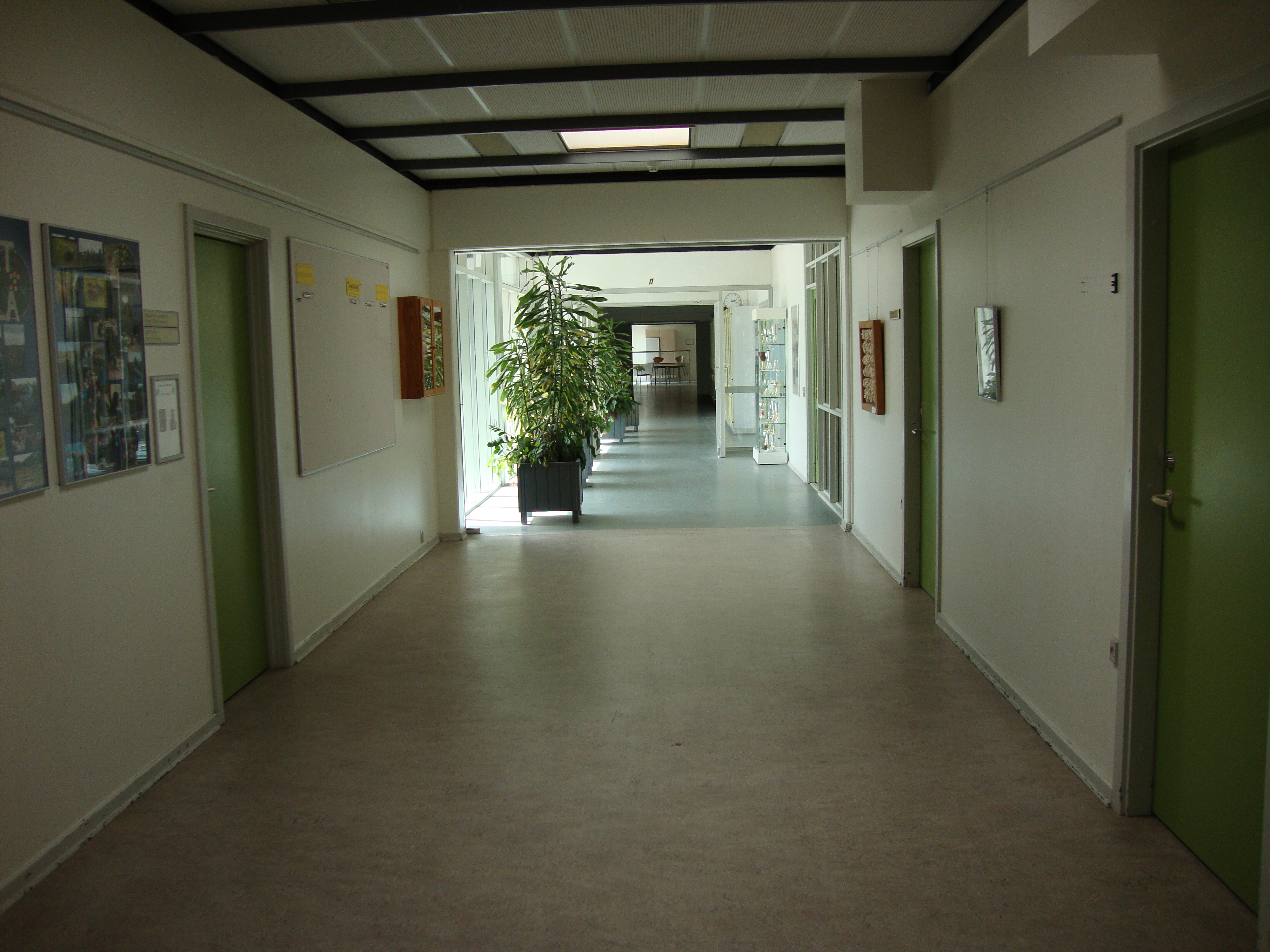 The School Lundergårdskolen in Hjørring.